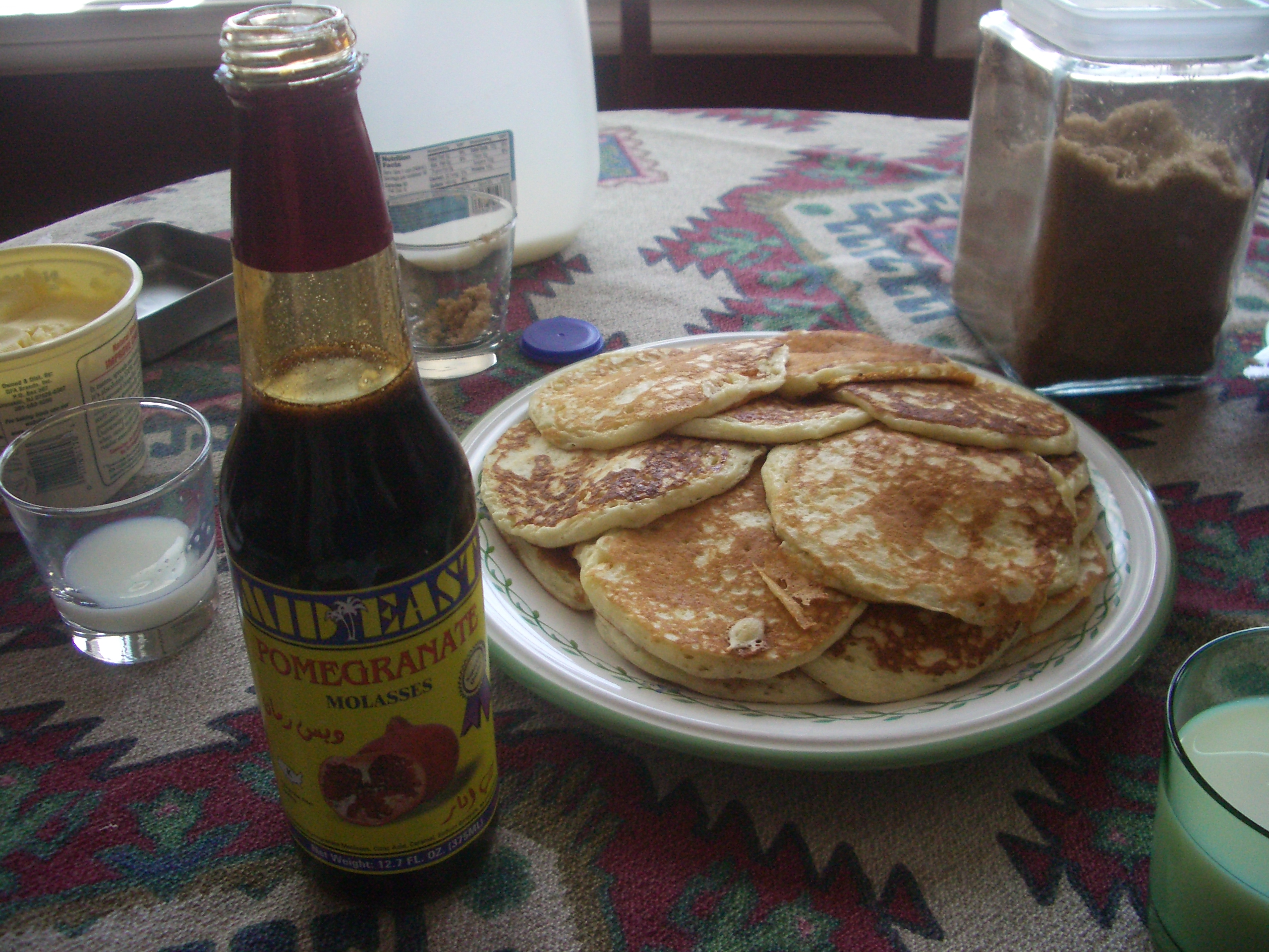 Had some last night in a lamb chop glaze at Angela and Sumeet's, which gave me an idea... This stuff is seriously good on pancakes: 2 Cups flour 2 Tablespoons sugar 2 Teaspoons baking powder 1 Teaspoon baking soda 1 Pinch salt 3 Cups buttermilk 2 Eggs, lightly beaten 4 Tablespoons unsalted butter, melted